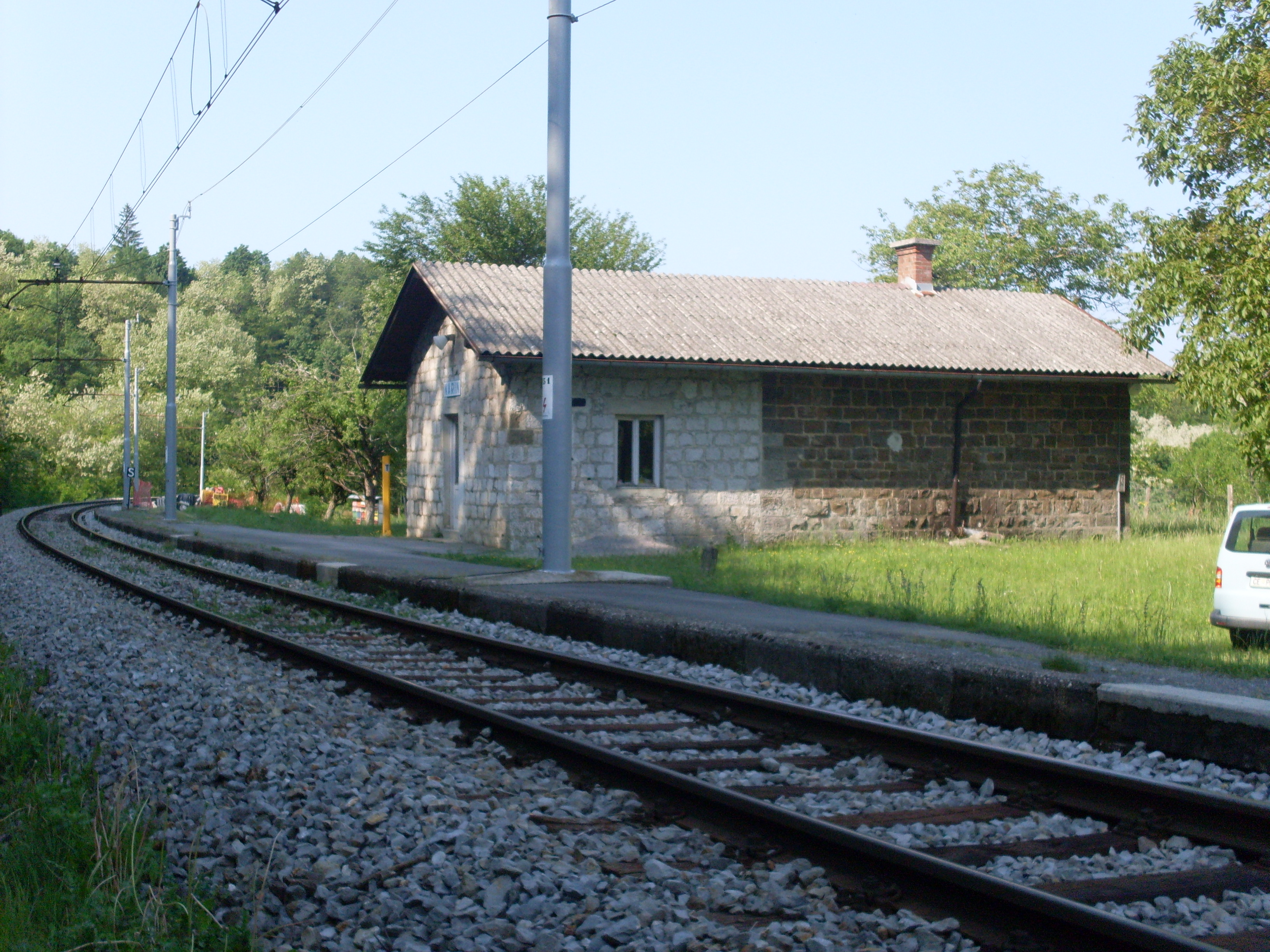 Railway halt in Narin, SloveniaSlovenščina: Železniško postajališče Narin